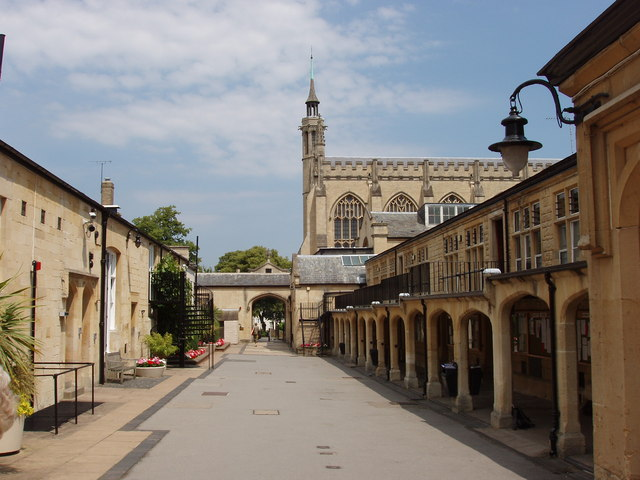 Quadrangle of Cheltenham College, Gloucestershire. The classrooms either side are science laboratories. The chapel is beyond.